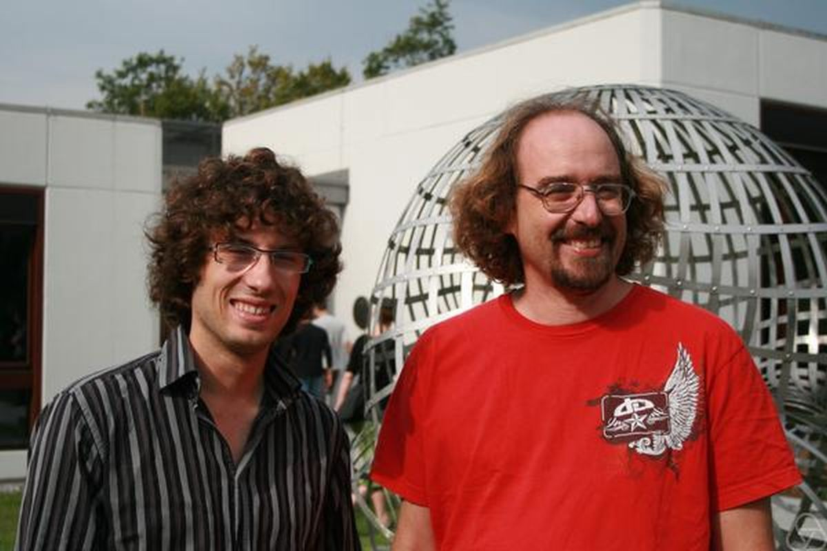 Gady Kozma (right), Hugo Duminil-Copin (left), Oberwolfach 2012